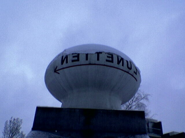 "The Temple of Boom", Lunettenbaan/Stelviobaan Utrecht (NL) categorie:afbeelding Utrecht